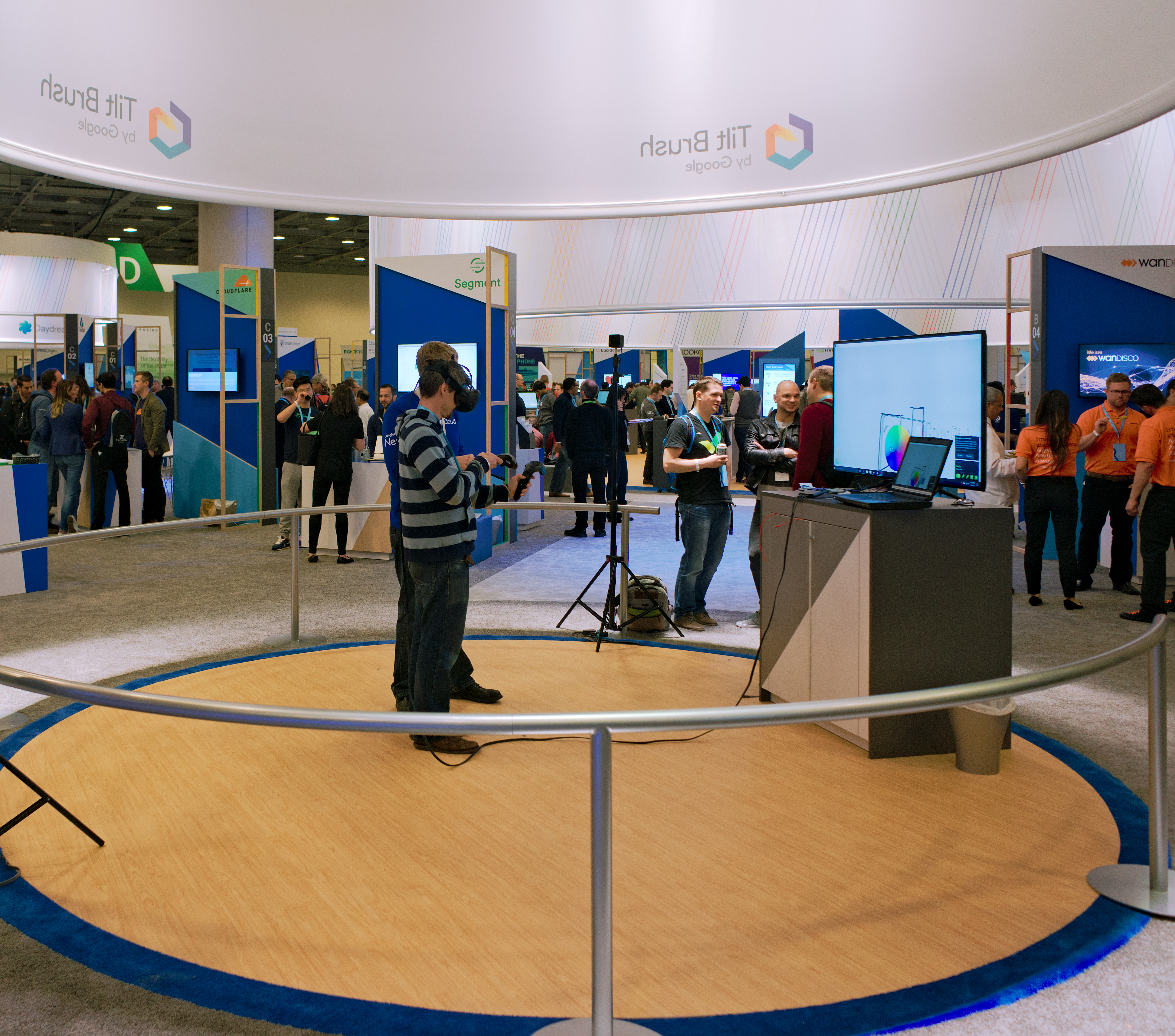 A Tilt Brush demo at Google Cloud Next 2017, a conference about cloud computing.